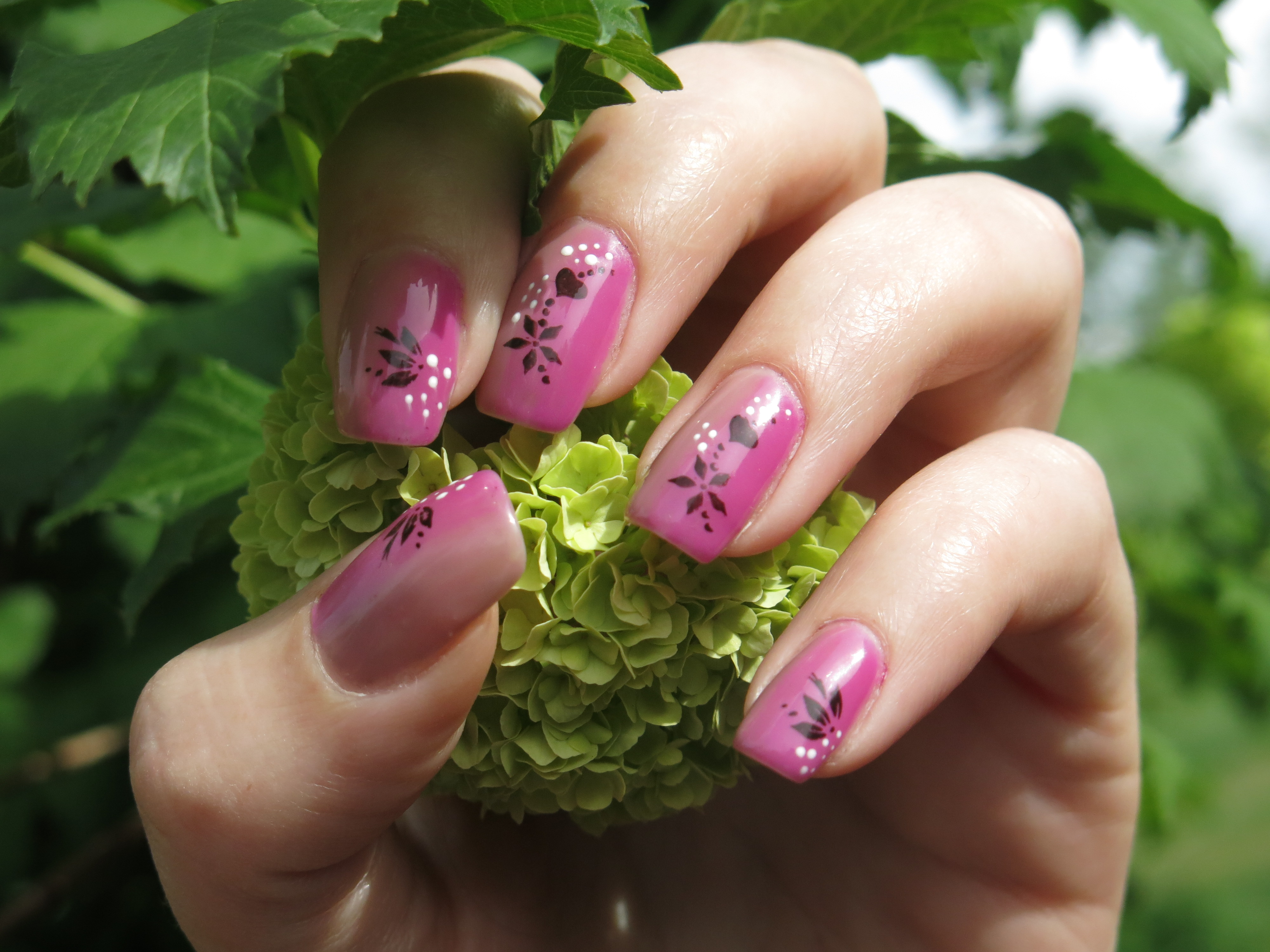 My cousin's painted nails; her hand's grasping this weird plant